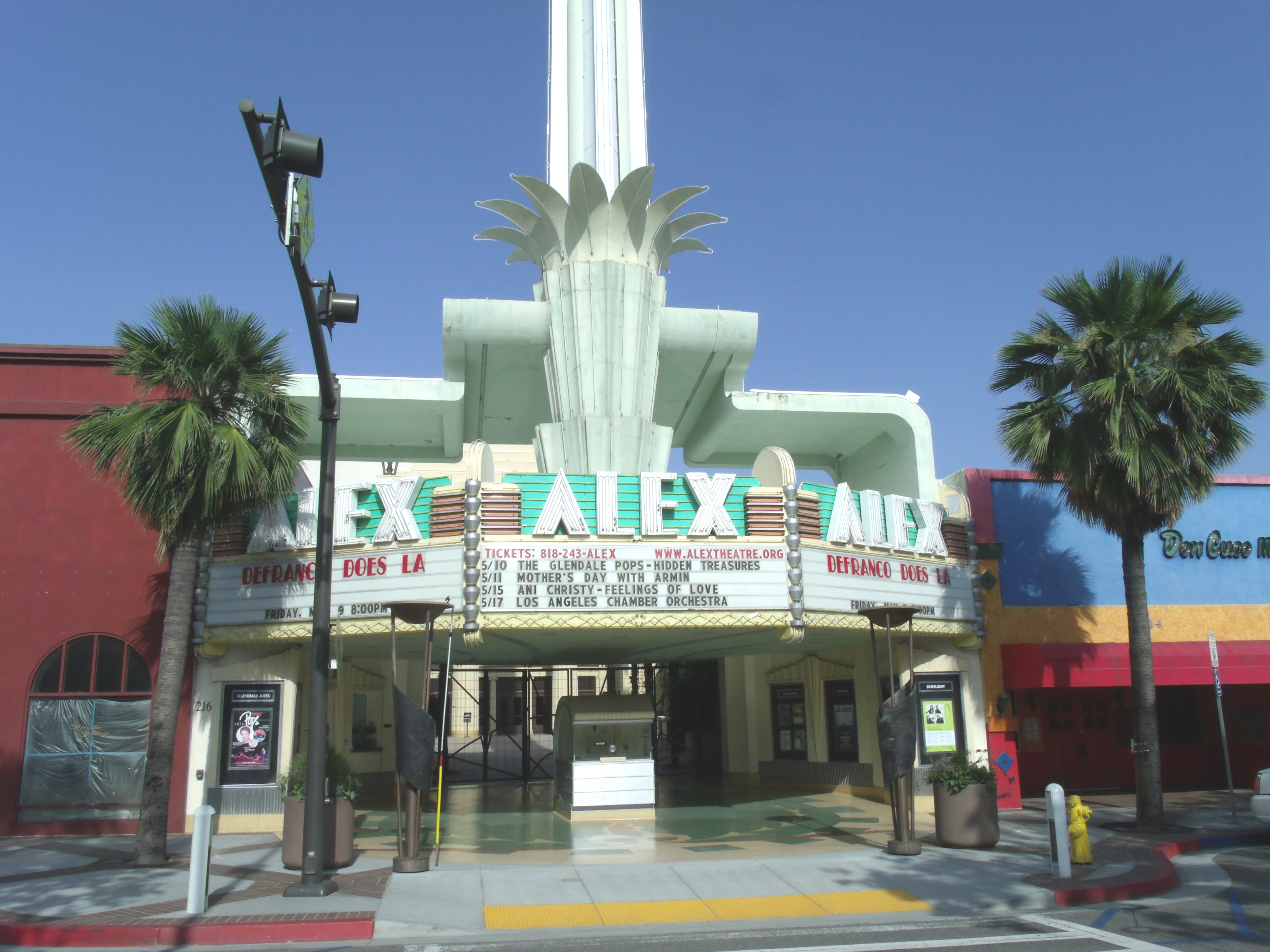 The Alex Theatre was built in 1925 and is located at located at 216 North Brand Boulevard in Glendale, California. Originally was named the " Alexander" after Alexander Langley, the son of C.L. Langley, owner of the West Coast chain that included the Raymond Theater in Pasadena. It featured vaudeville performances, plays and silent movies on a single screen. It was added to the National Register of Historic Places on February 16, 1996 reference #96000102